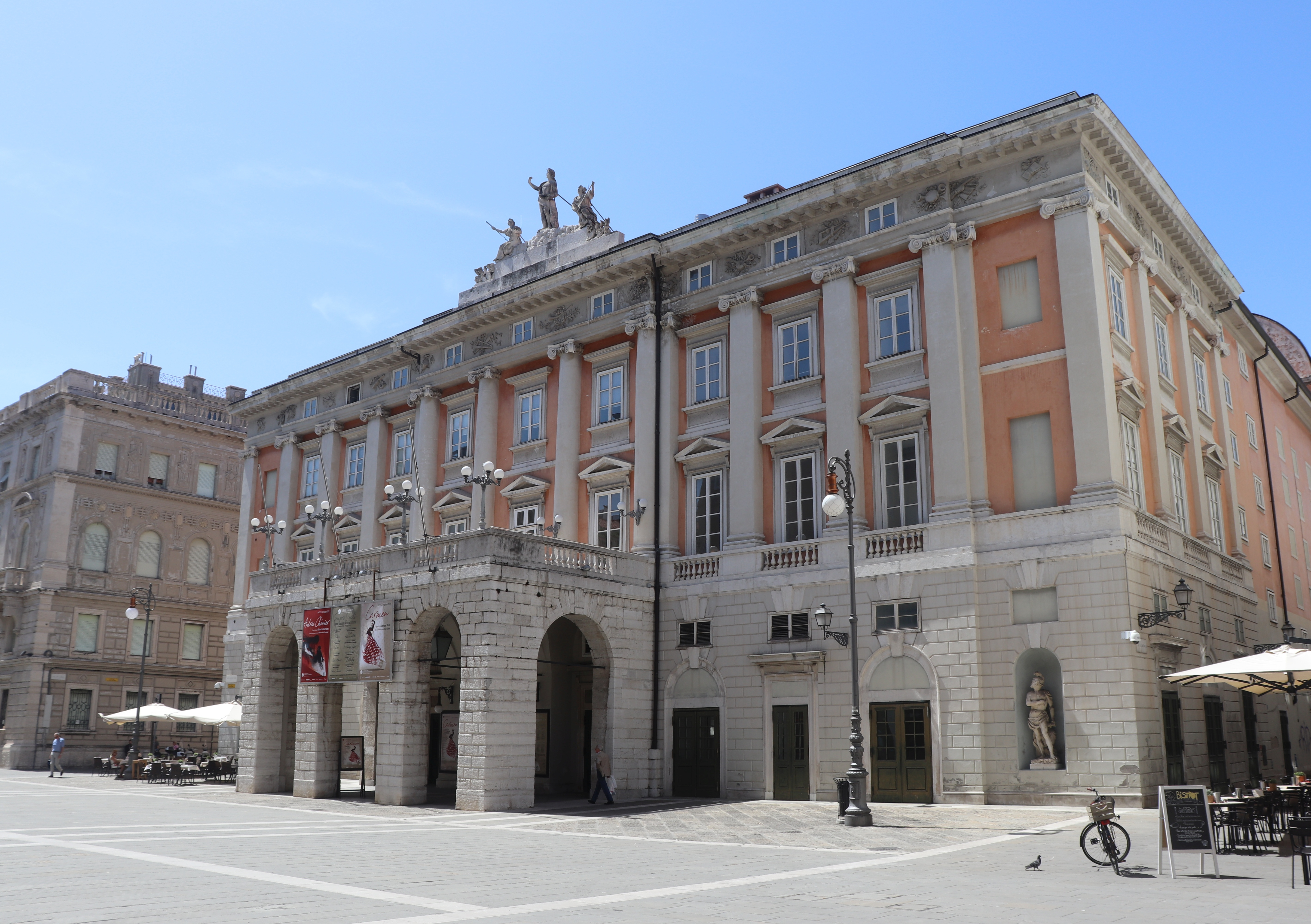 Trieste - Giuseppe Verdi Theatre